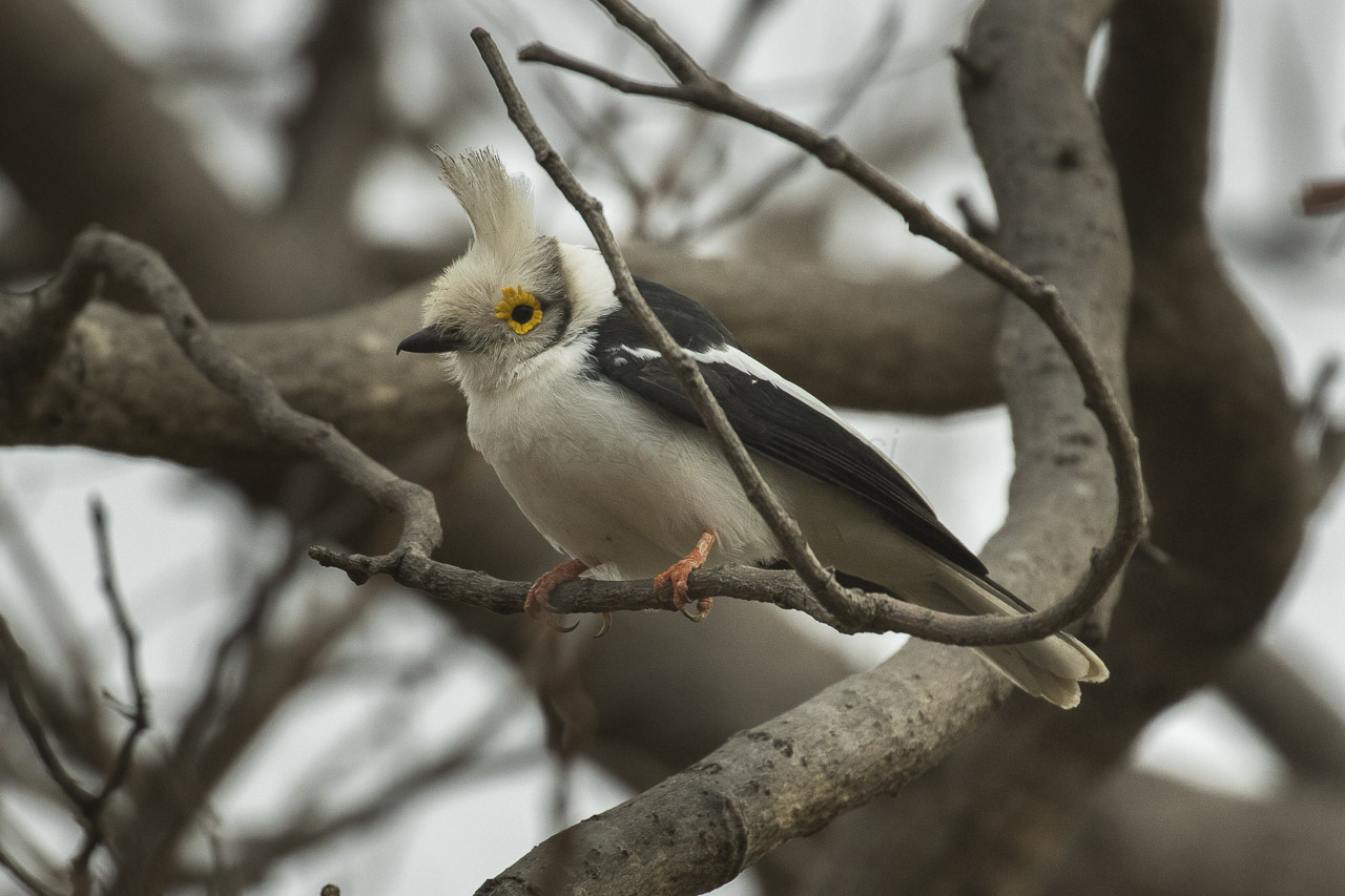 White Helmetshrike - Gambia 17_CD5A0175